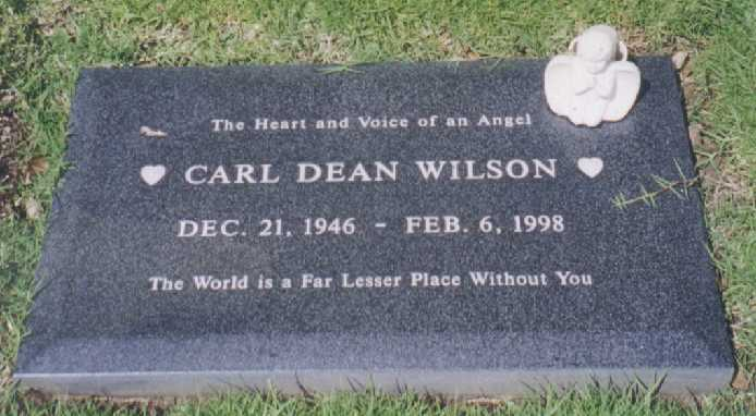 Gravestone of Carl Wilson, former Beach Boy.